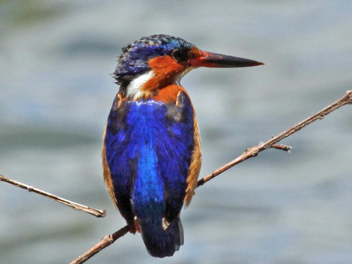 Malagasy Kingfisher (Alcedo vintsioides) - Parc Tsarasaotra, an open bird sanctury in Antananarivo, Madagascar.